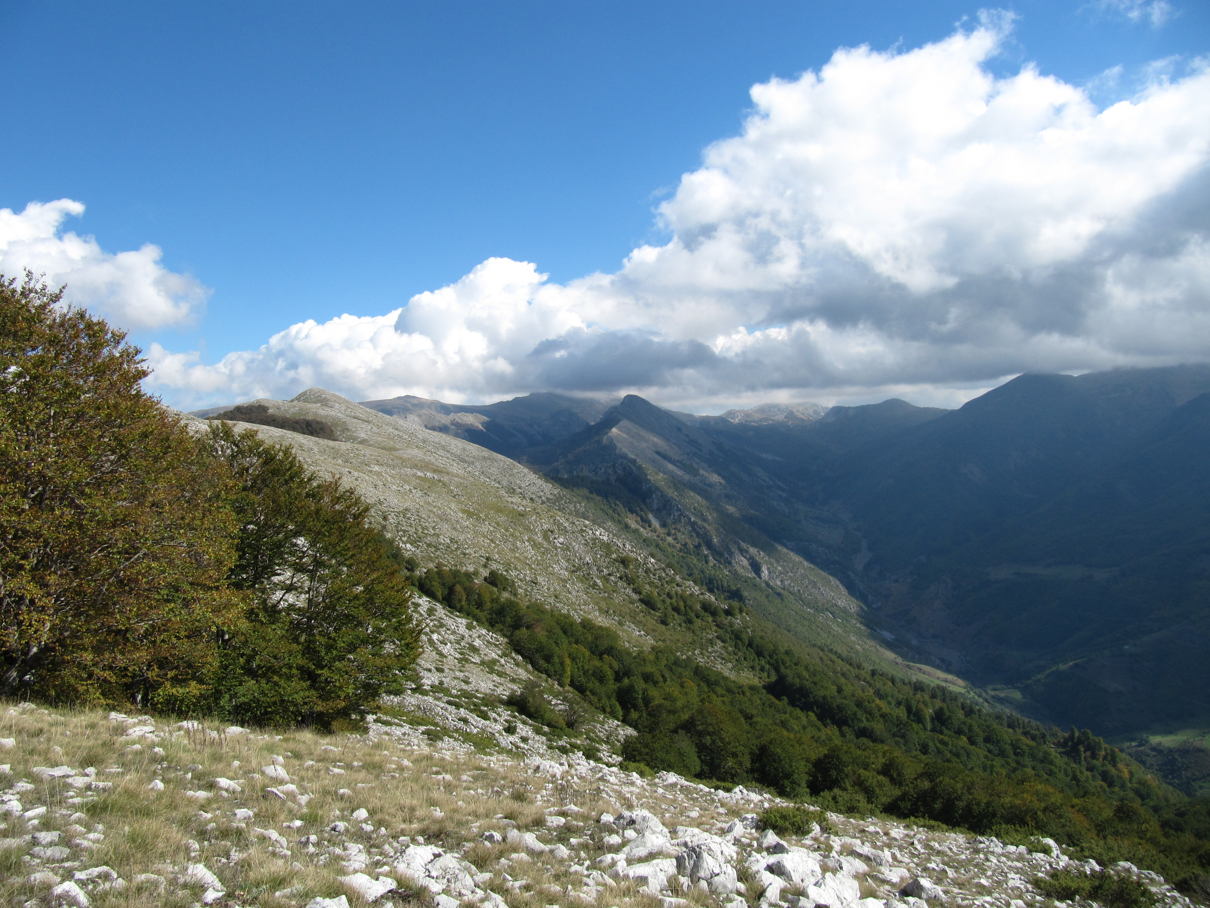 A valley in Shebenik Jabllanice National Park. View of a valley in the Shebenik Jabllanice National Park near Qarrishte Albania, Albania.